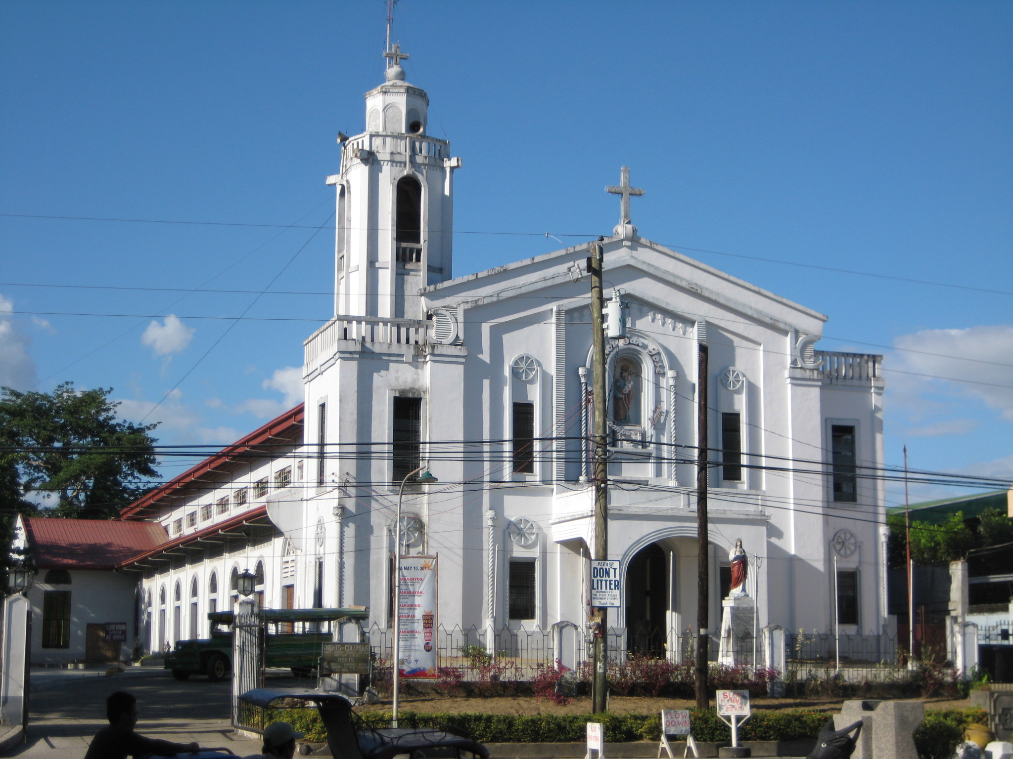 The facade of the Parish Church of St. Joseph in Pototan, Iloilo.